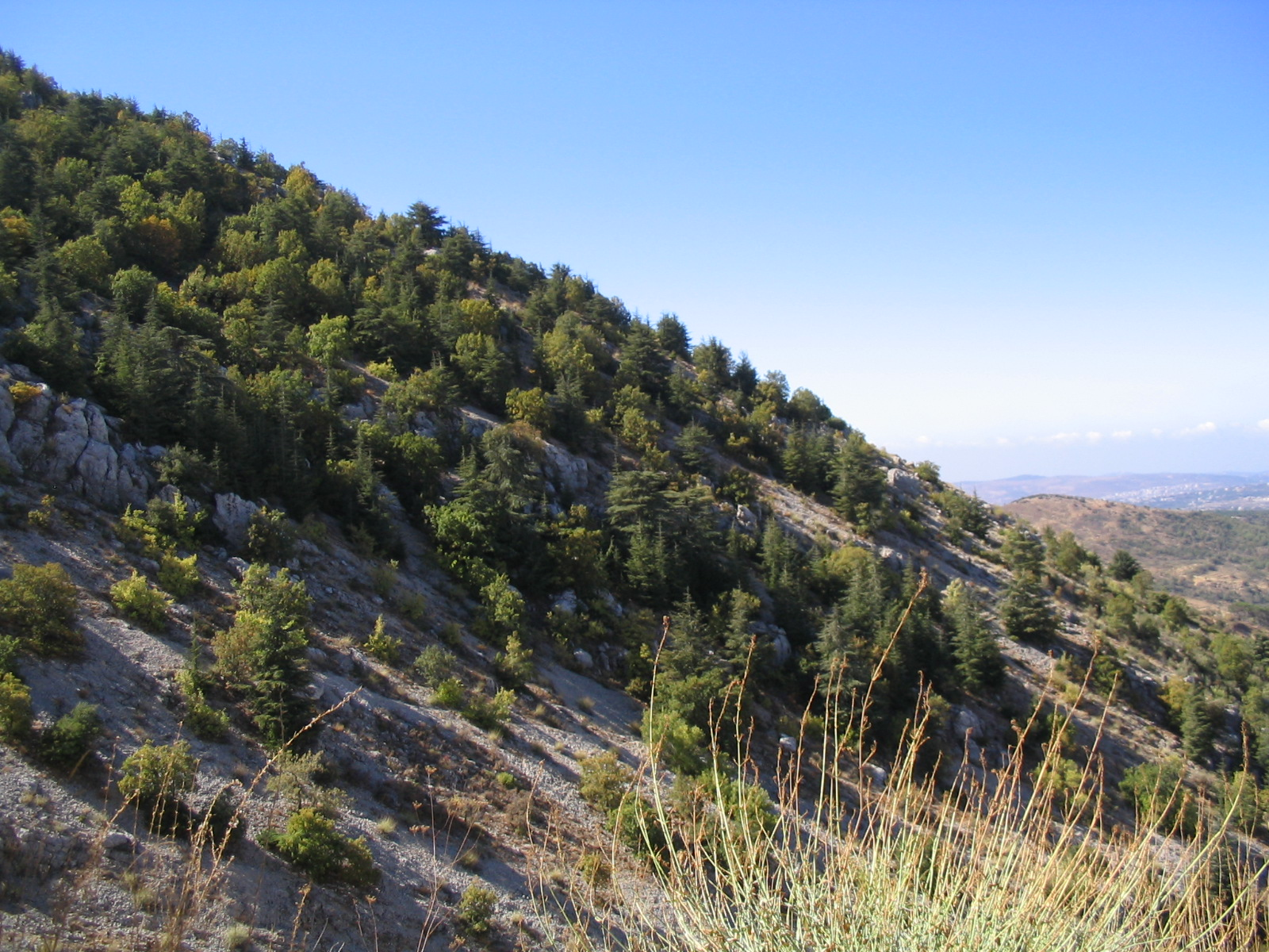 Youssef Habbouche